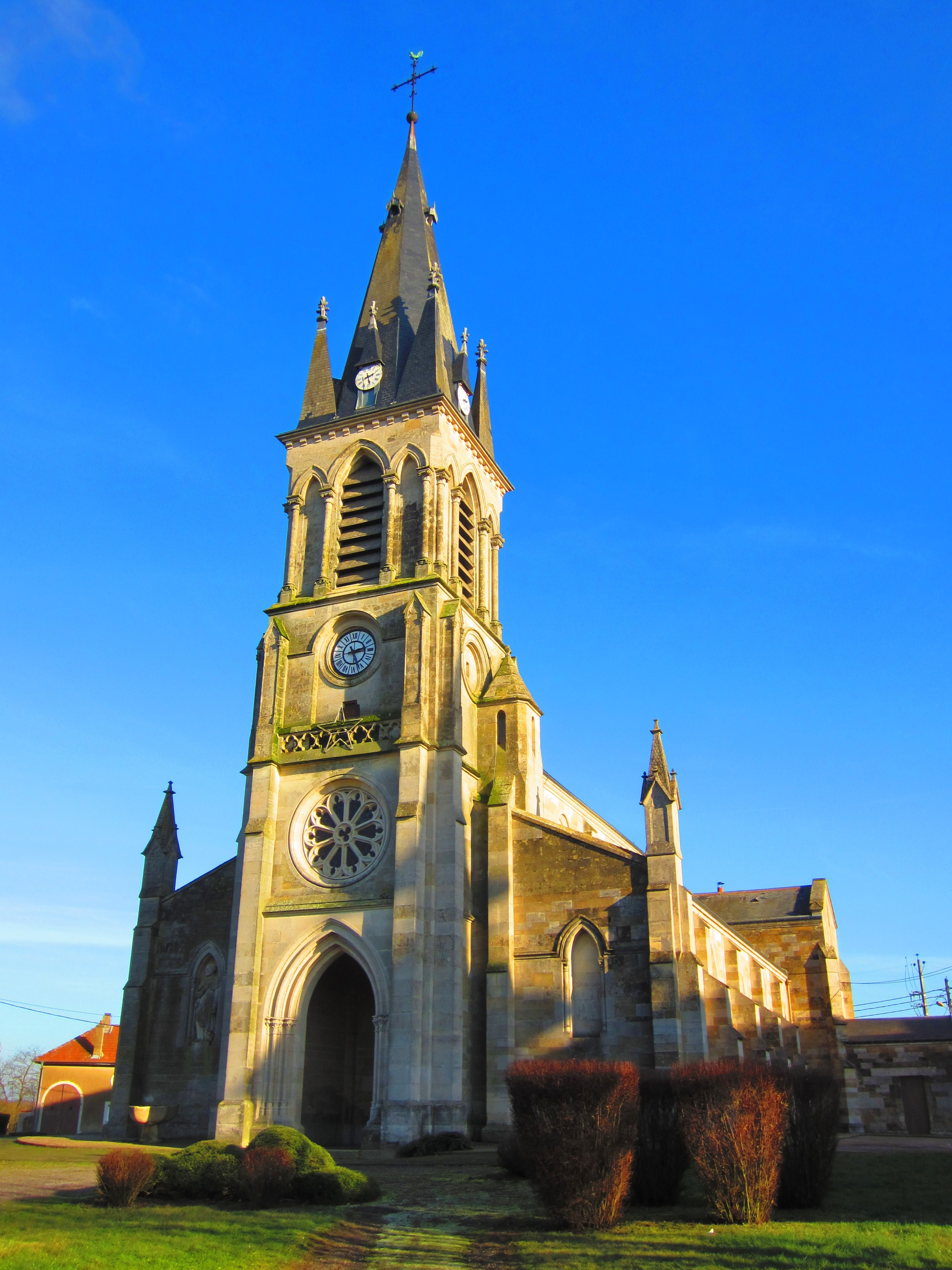 Rouvres Woevre church